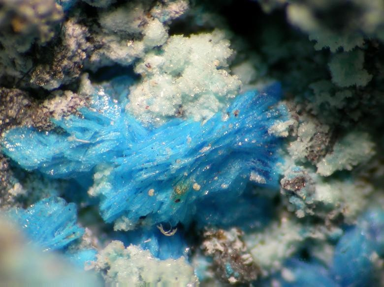 Yvonite Locality: Salsigne mine, Salsigne, Mas-Cabardès, Carcassonne, Aude, Languedoc-Roussillon, France (Locality at ) Field of view 4 mm. Specimen and photo Leon Hupperichs.